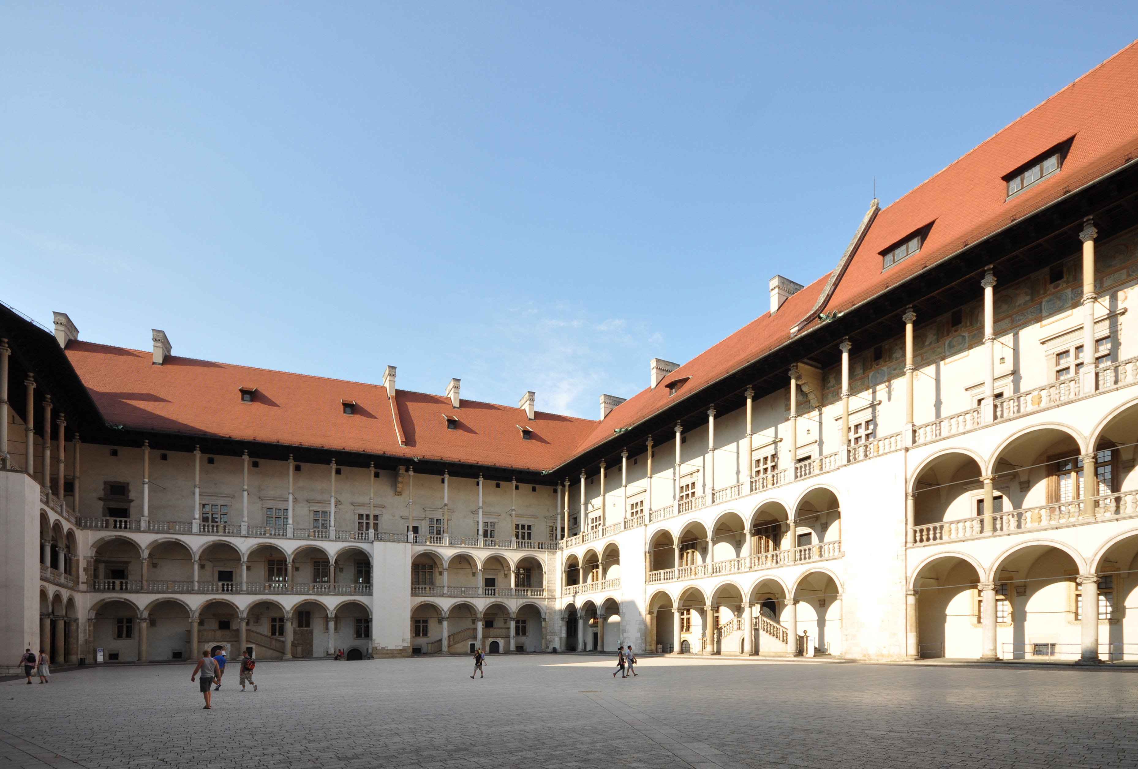 The Gothic Wawel Castle in Kraków in Poland was built at the behest of Casimir III the Great, who reigned from 1333 to 1370, and consists of a number of structures situated around the central courtyard. In the 14th century it was rebuilt by Jogaila and Jadwiga of Poland. Their reign saw the addition of the tower called the Hen's Foot (Kurza Stopka) and the Danish Tower. The Jadwiga and Jogaila Chamber, in which the sword Szczerbiec, was used in coronation ceremonies, is exhibited today and is another remnant of this period. Other structures were developed on the hill during that time as well, in order to serve as quarters for the numerous clergy, royal clerks and craftsmen. Defensive walls and towers such as Jordanka, Lubranka, Sandomierska, Tęczyńska, Szlachecka, Złodziejska and Panieńska were erected in the same period